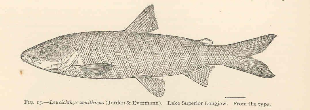 Leucichthys zenithicus (Jordan & Evermann). Lake Superior Longjaw. From the type Subject: Coregonus, Shortjaw cisco Tag: Fish